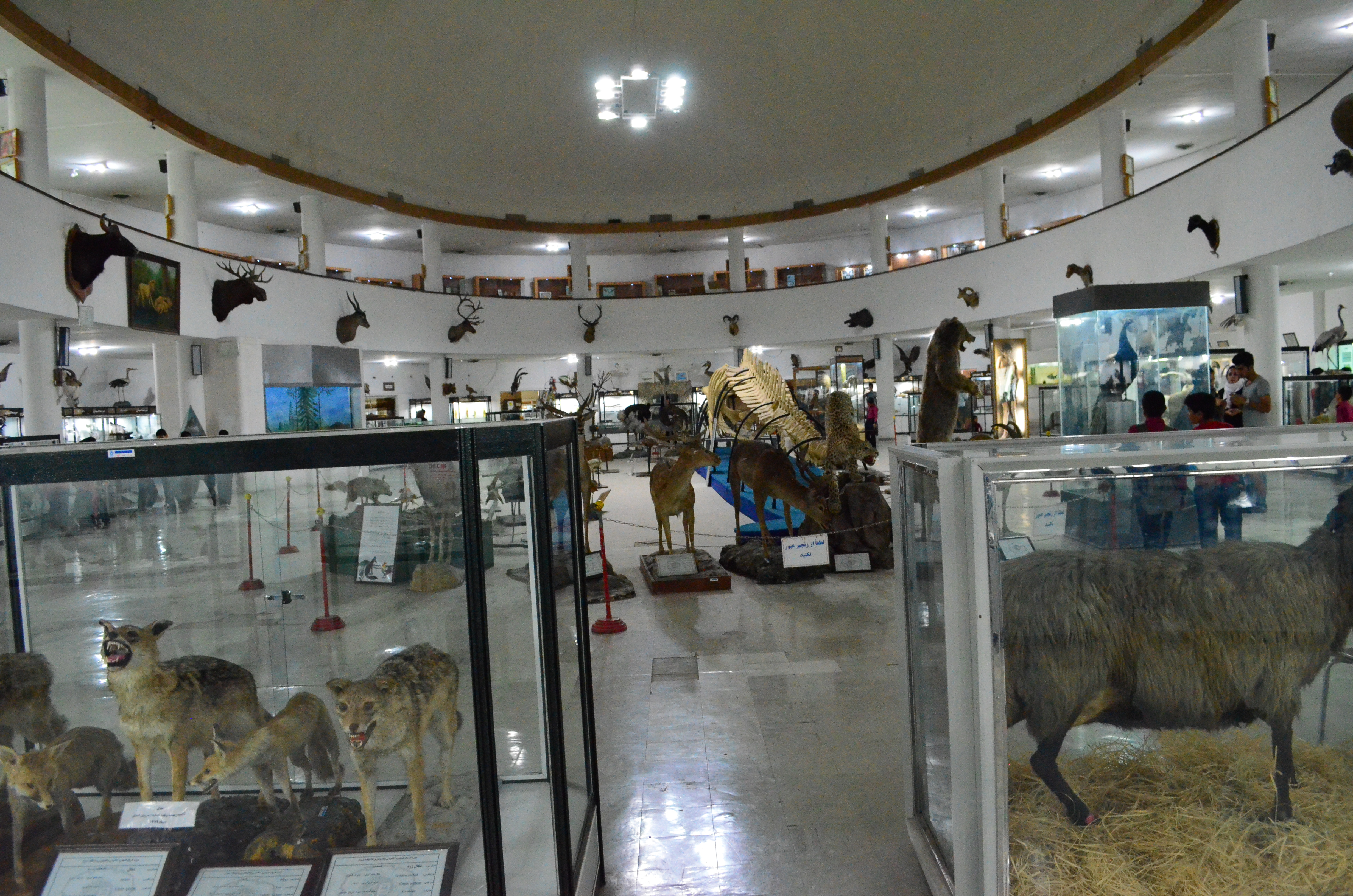 Natural History and Technology Museum of Shiraz University